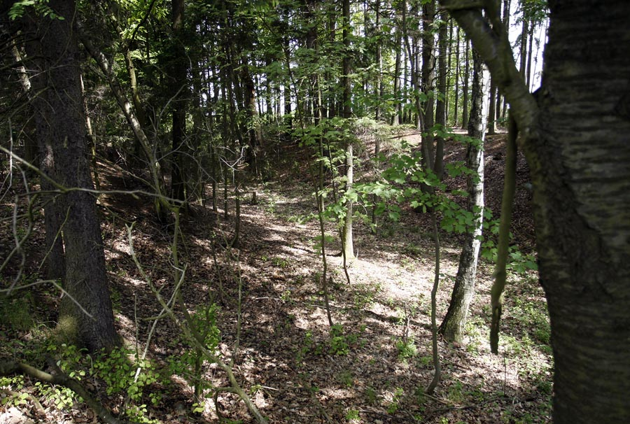 Devils furrow, part between villages Kachni Louze and Radlice